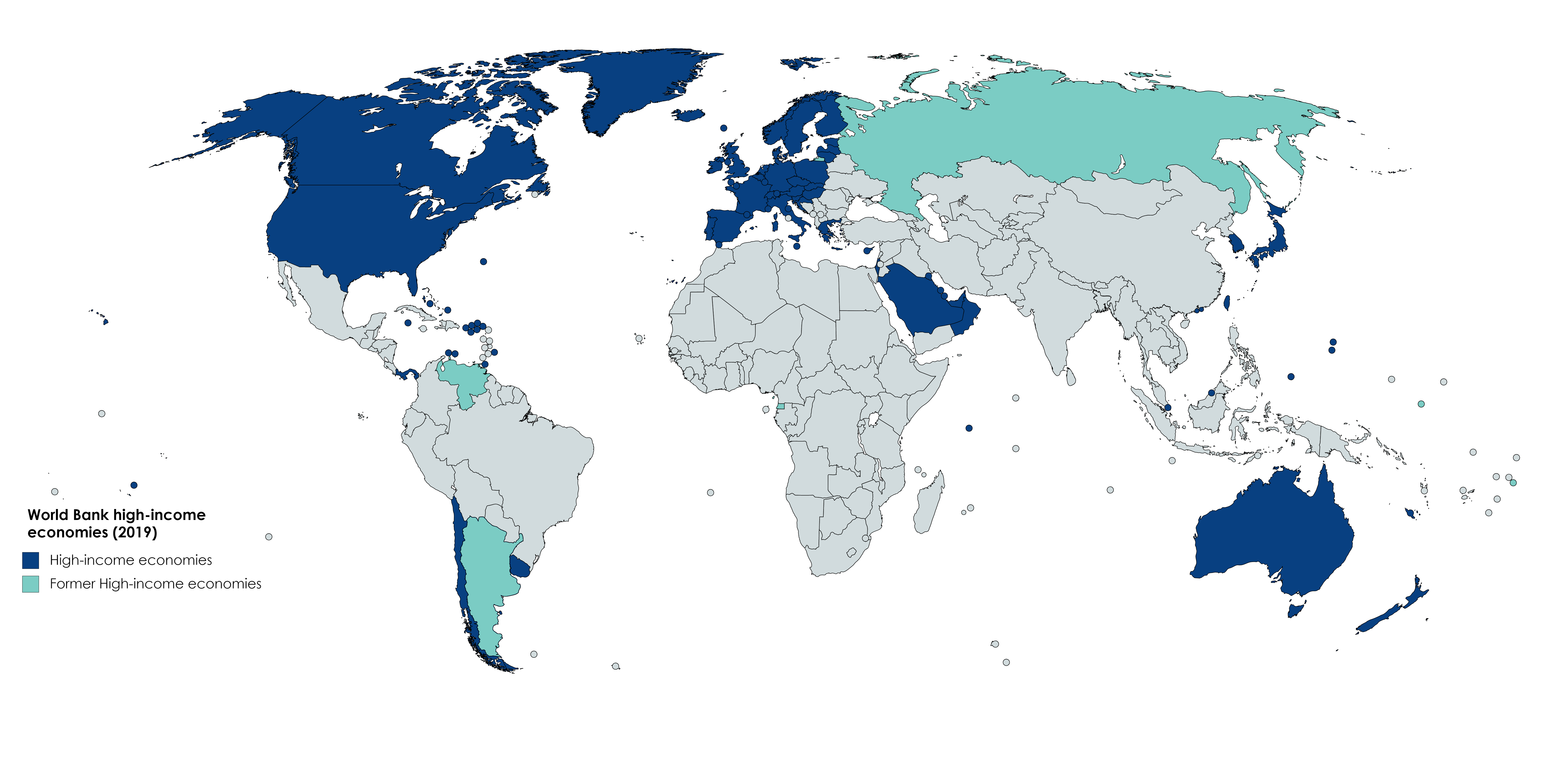 Map of high-income economies and ex-high-income economies according to the World Bank in 2019.